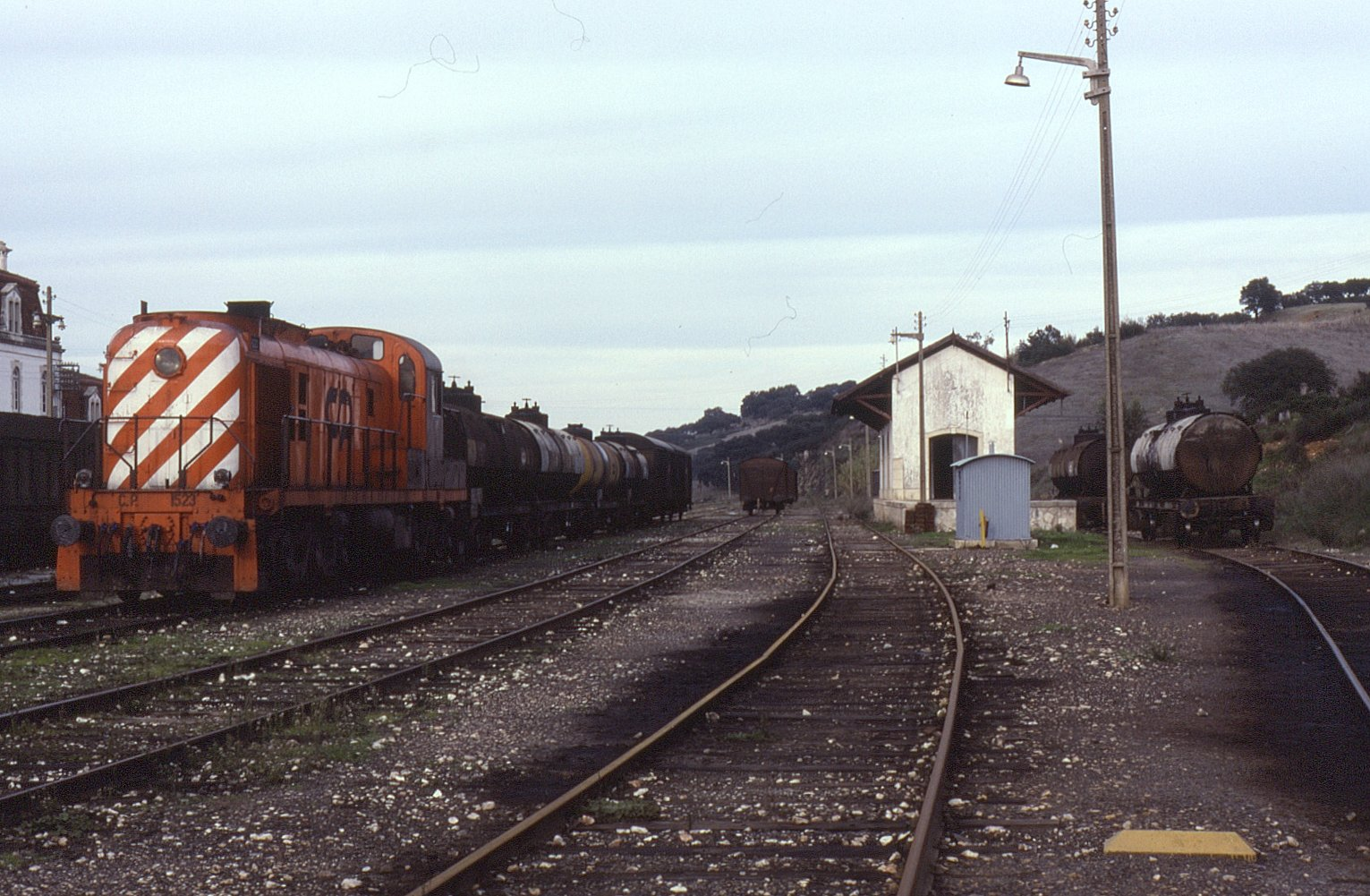 Alco built loco, 1523 seen at Funcheira on a freight on 30 November 1990.